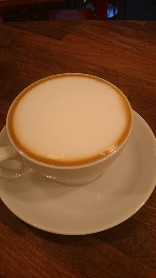 Traditional cappuccino with a good amount of foam.